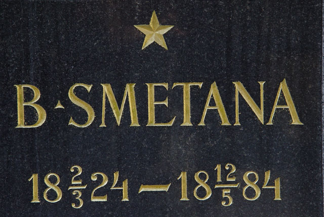 Description: Gravestone of Bedřich Smetana, Vyšehrad, Praha, Czech Republic Author: Bernd Janning, Date: August 28th, 2005